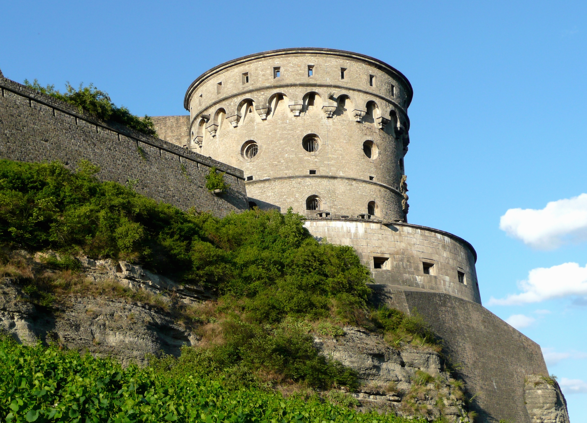 Machicolation tower of the Fortress Marienberg in Würzburg, Germany. The tower was built by Balthasar Neumann from 1724 to 1729.